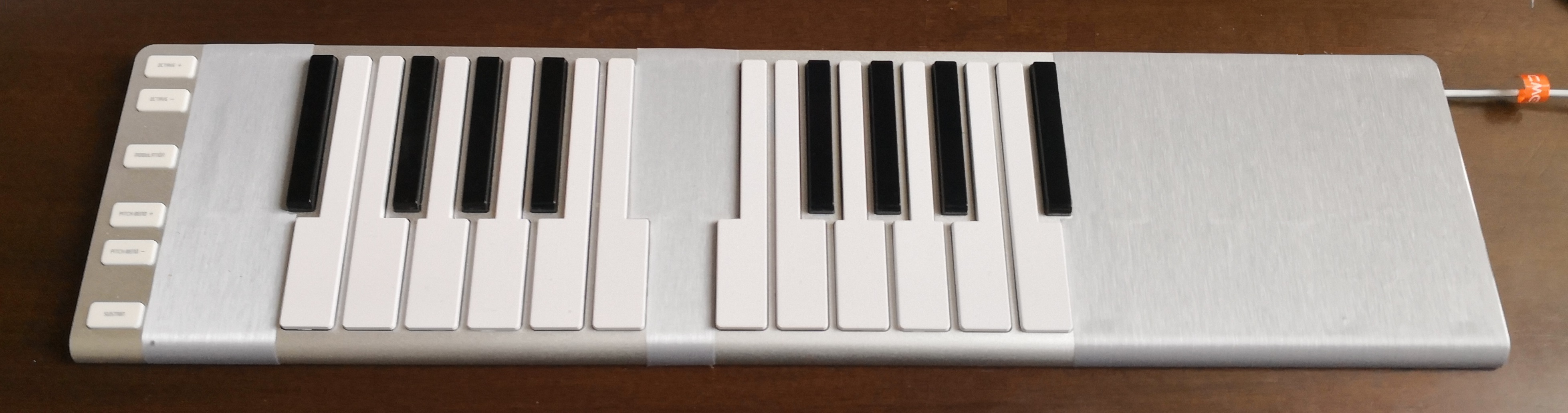 The Michela stenographic uses some octaves of a musical keyboard (together with the MIDI protocol to comunicate with translation softwares, like Eclipse or Plover). It is therefore possible to create a Michela shorthand keyboard simply by modifying a MIDI master keyboard.